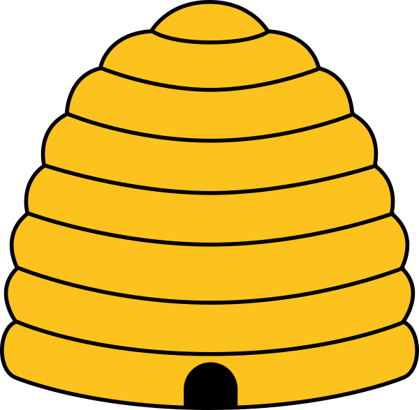 DeseretBeehive